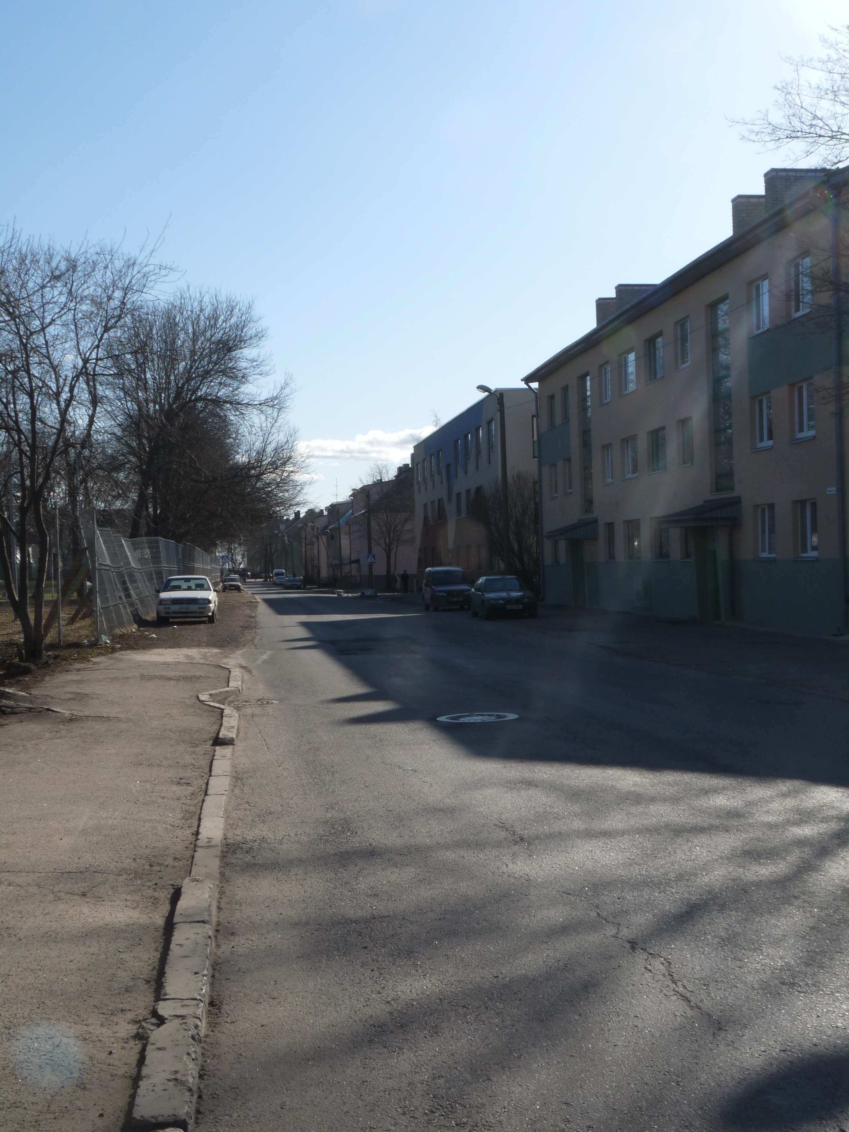 Majaka side road in Tallinn